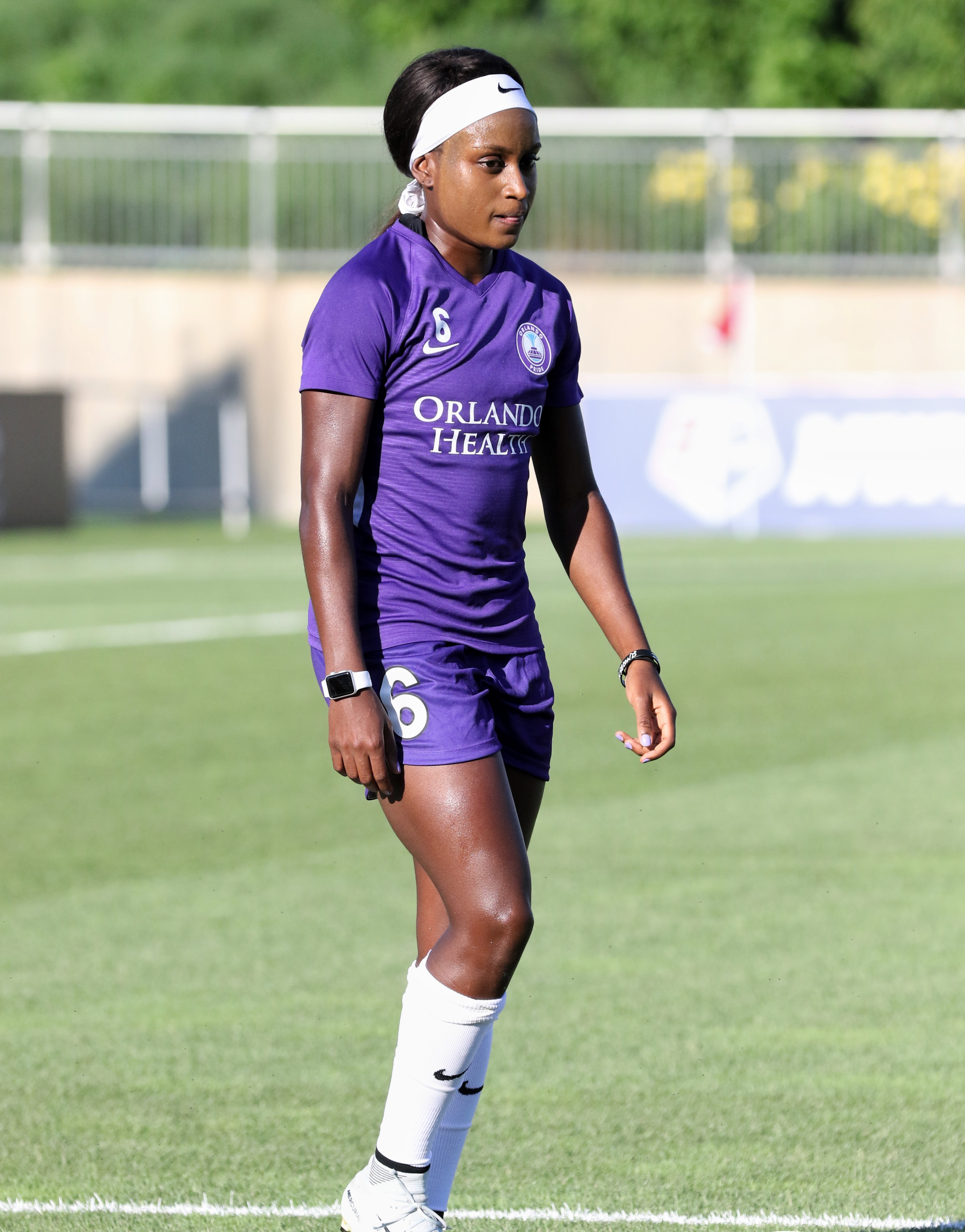 Chioma Ubogagu playing for Orlando Pride on June 23, 2018